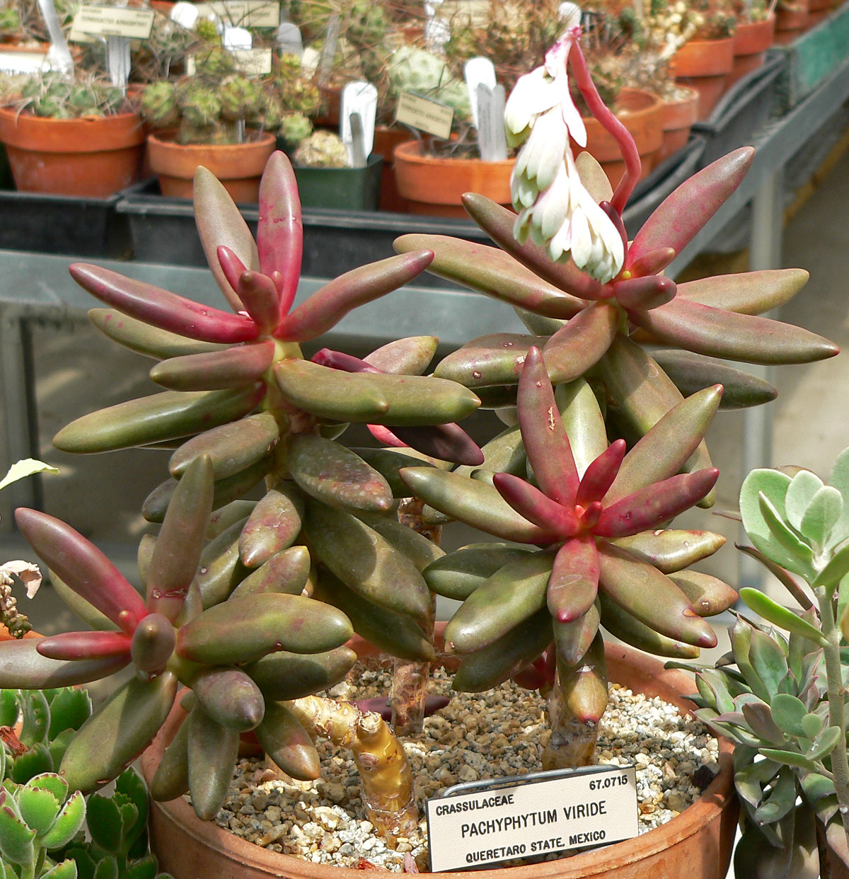 Pachyphytum viride at the University of California Botanical Garden, Berkeley, California